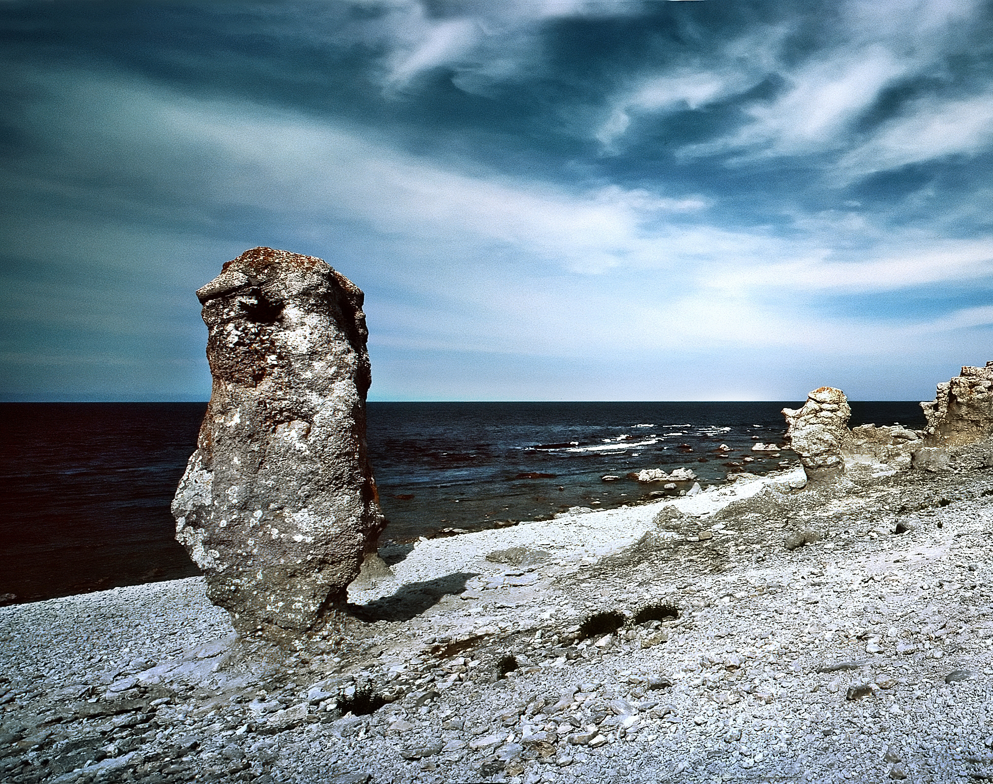 Rauk Islands — Fårö, Sweden.